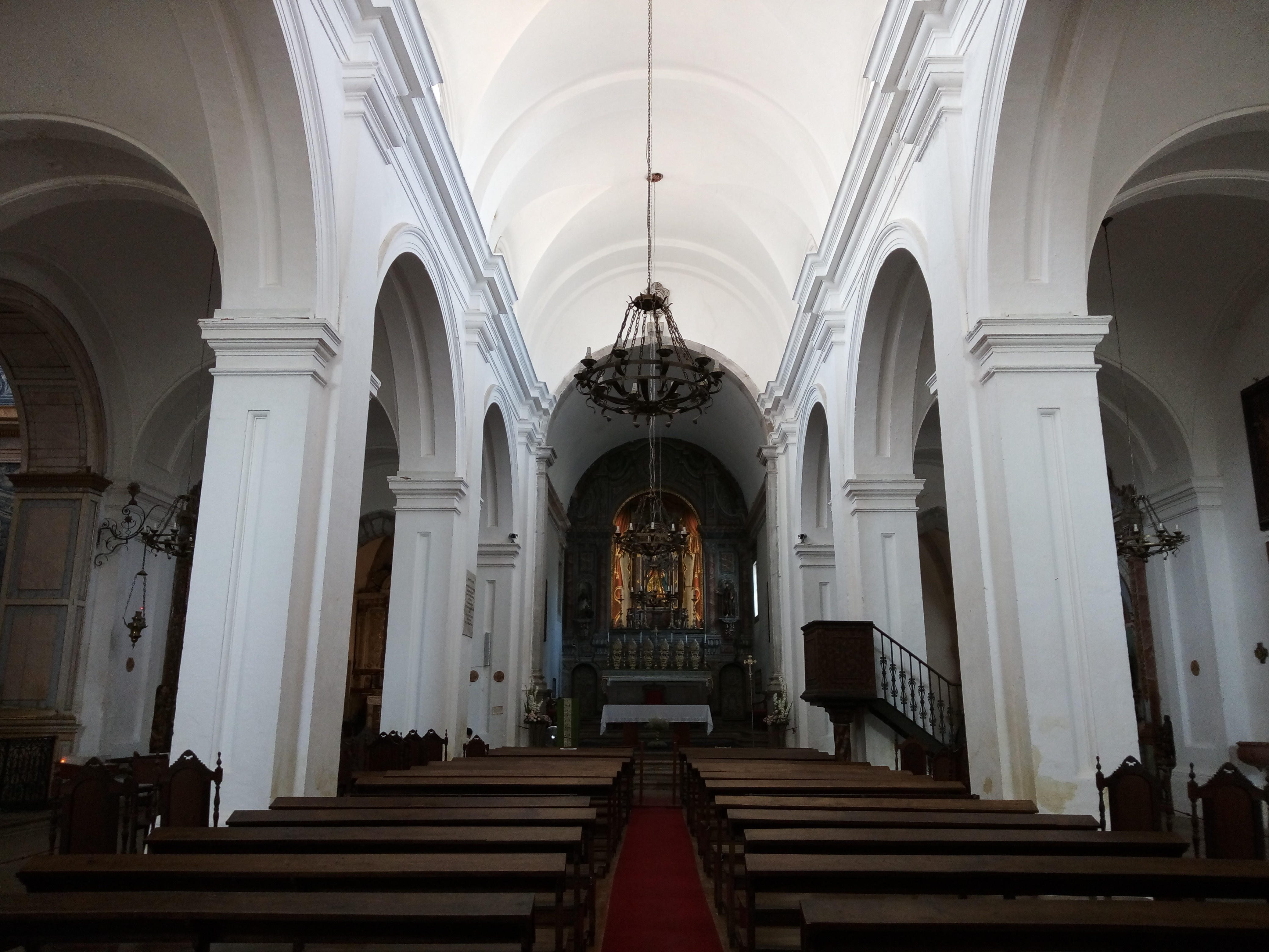 Interior of the Church of Saint Mary of the Castle in Tavira, Portugal.